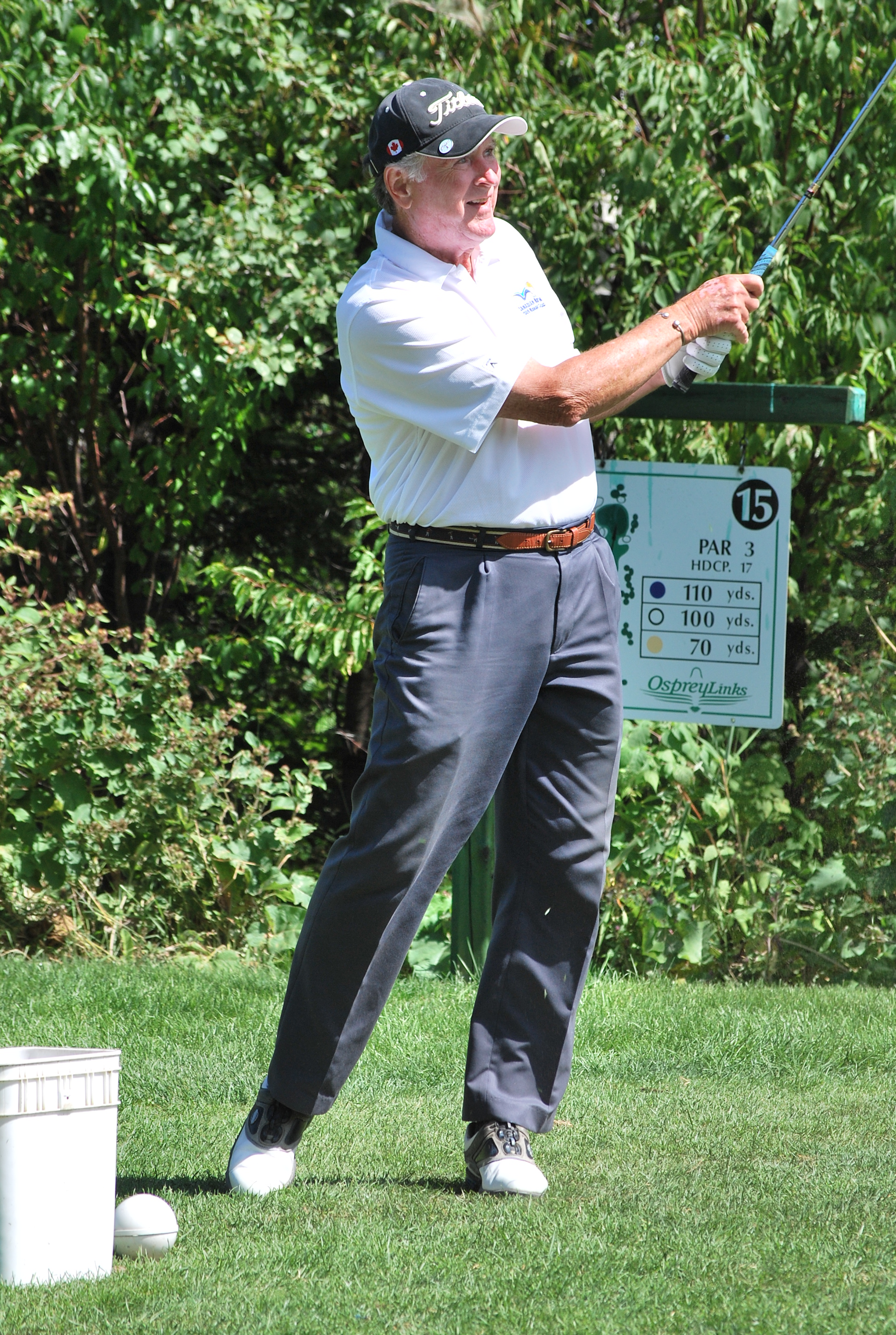 Golfer Gary Cowan at Osprey Links Golf Course on Thursday, August 27th, 2009 playing in the annual Senior Mens Field Day.